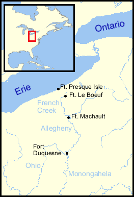 French forts built in the Ohio Country in 1753 and 1754. Includes Fort Presque Isle, Fort Le Boeuf, Fort Machault and Fort Duquesne.